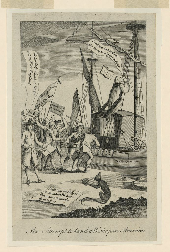 A cartoon from the periodical Political Register of 1768 depicting an Anglican Bishop climbing up the ropes on a ship labeled "Hillsborough" to escape a mob of angry American colonials who use long poles to push the ship away from the quay while holding aloft political and religious books.